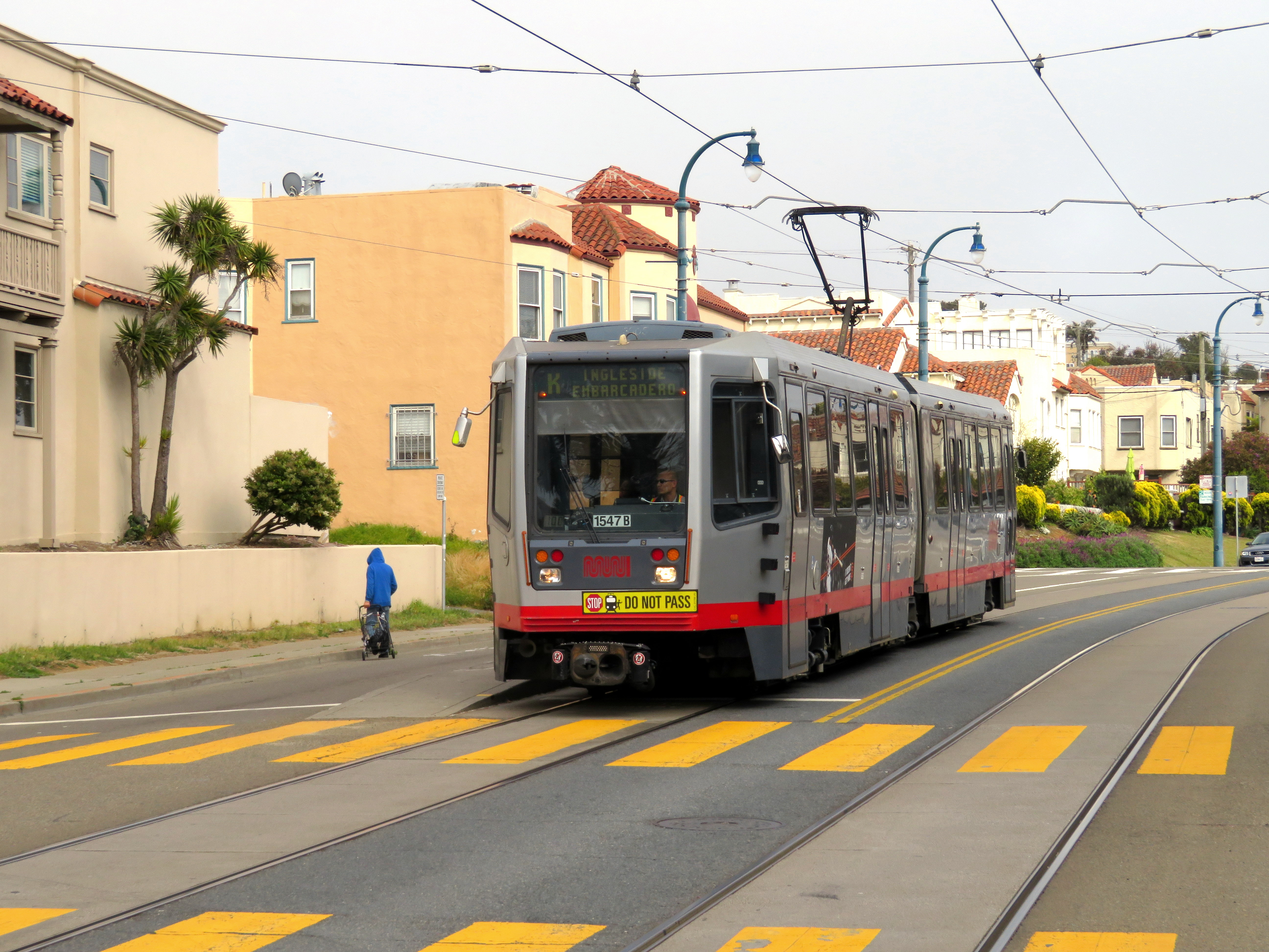 Inbound train at Ocean and San Leandro in May 2018